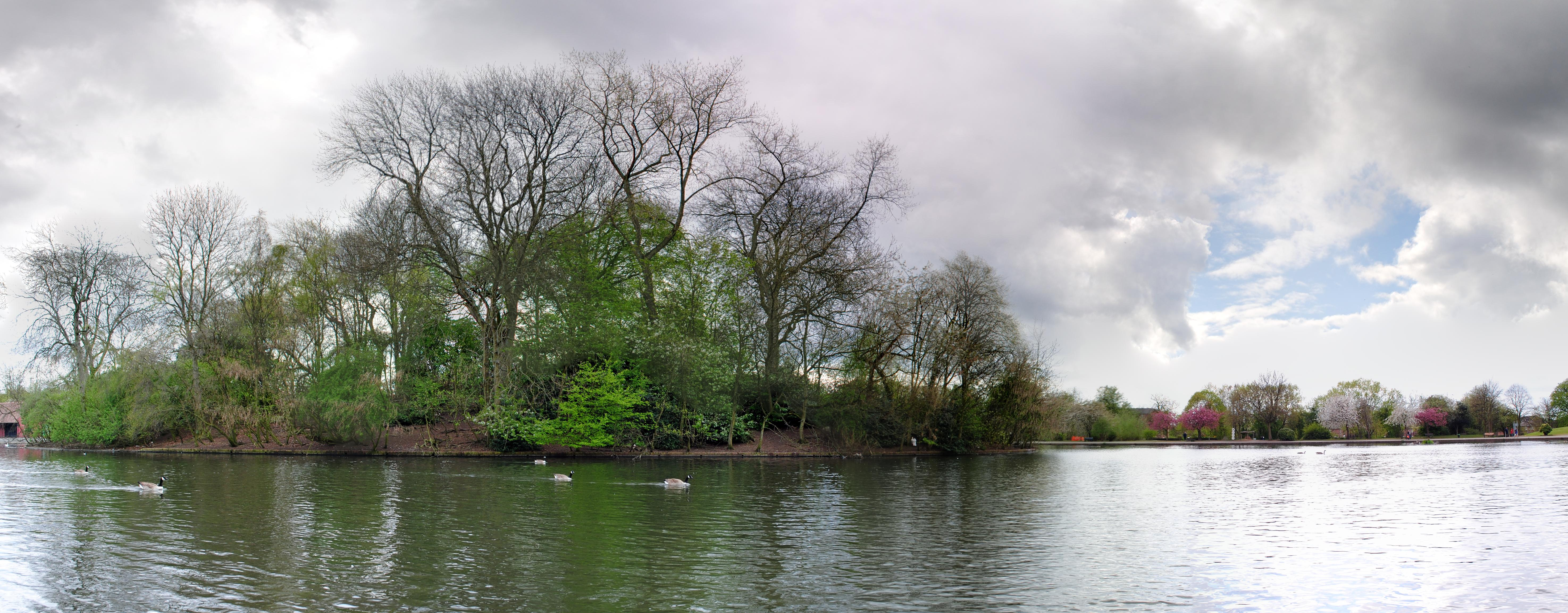 The pleasure lake and central island of Platt Fields Park. The image is a panorama of around 20 photos, taken at 18mm, stitched by Hugin.